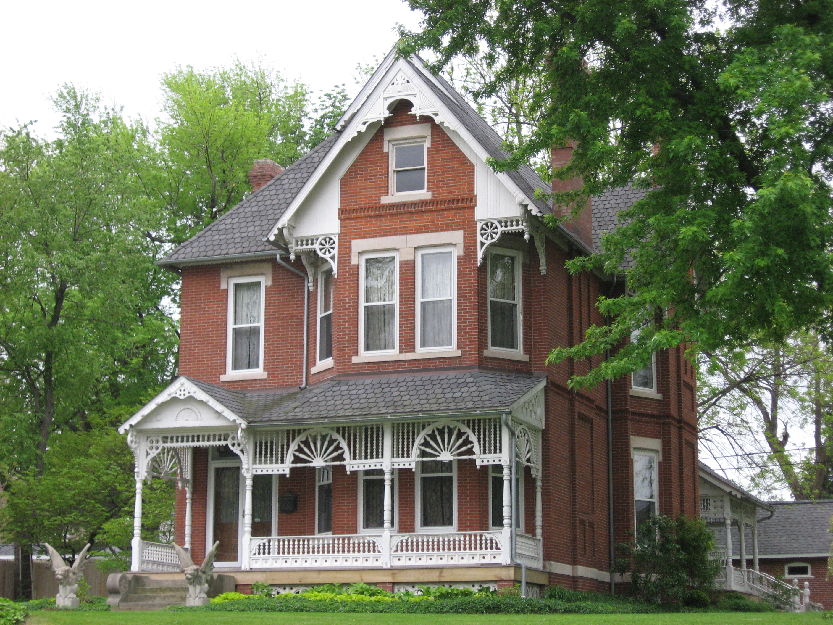 Front and western side of the Dr. Nelson Wilson House, located at 612 E. Main Street in Washington, Indiana, United States. Built in 1896, it is listed on the National Register of Historic Places.